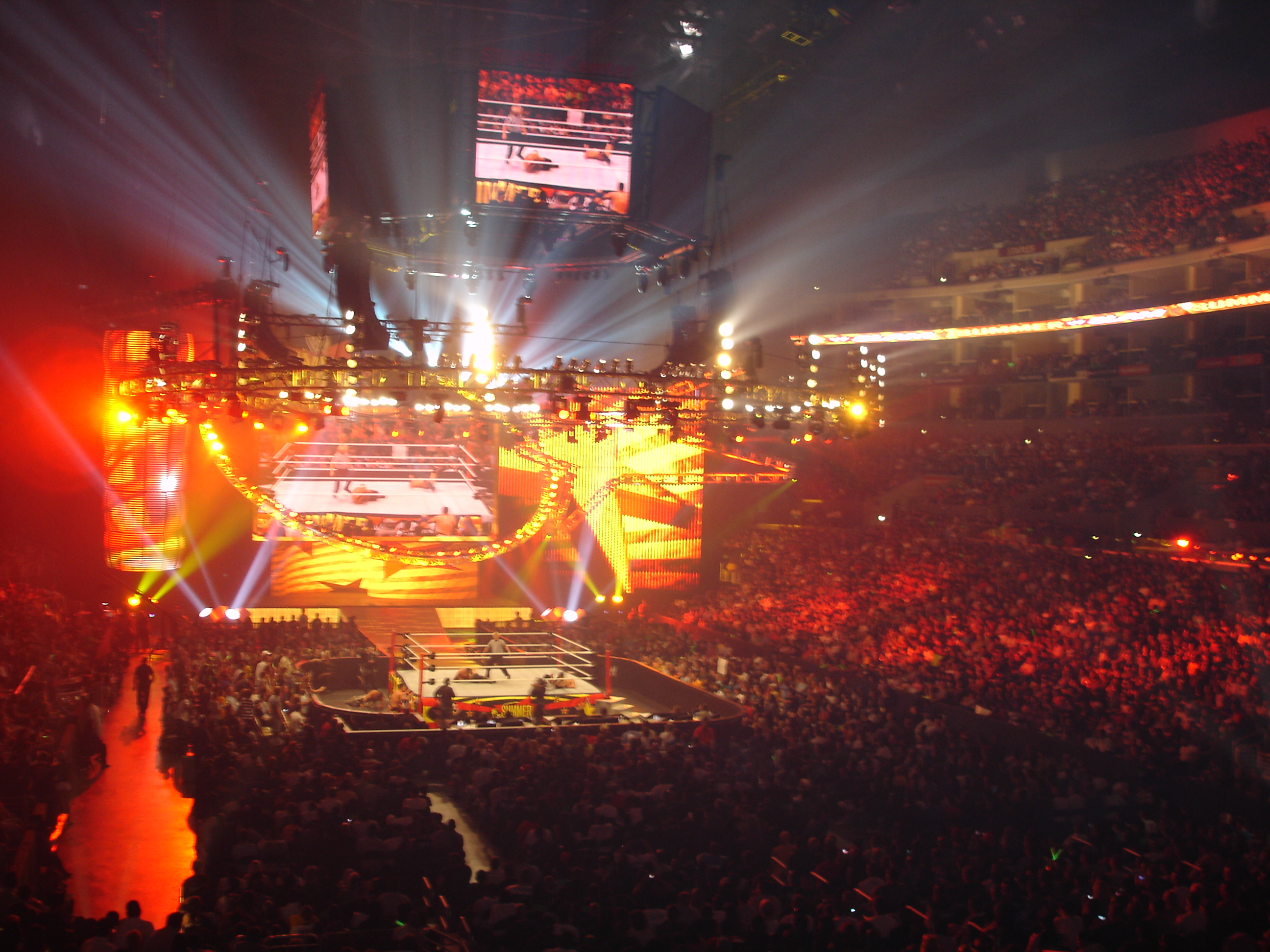 Inside Staples Center for the 2009 SummerSlam.